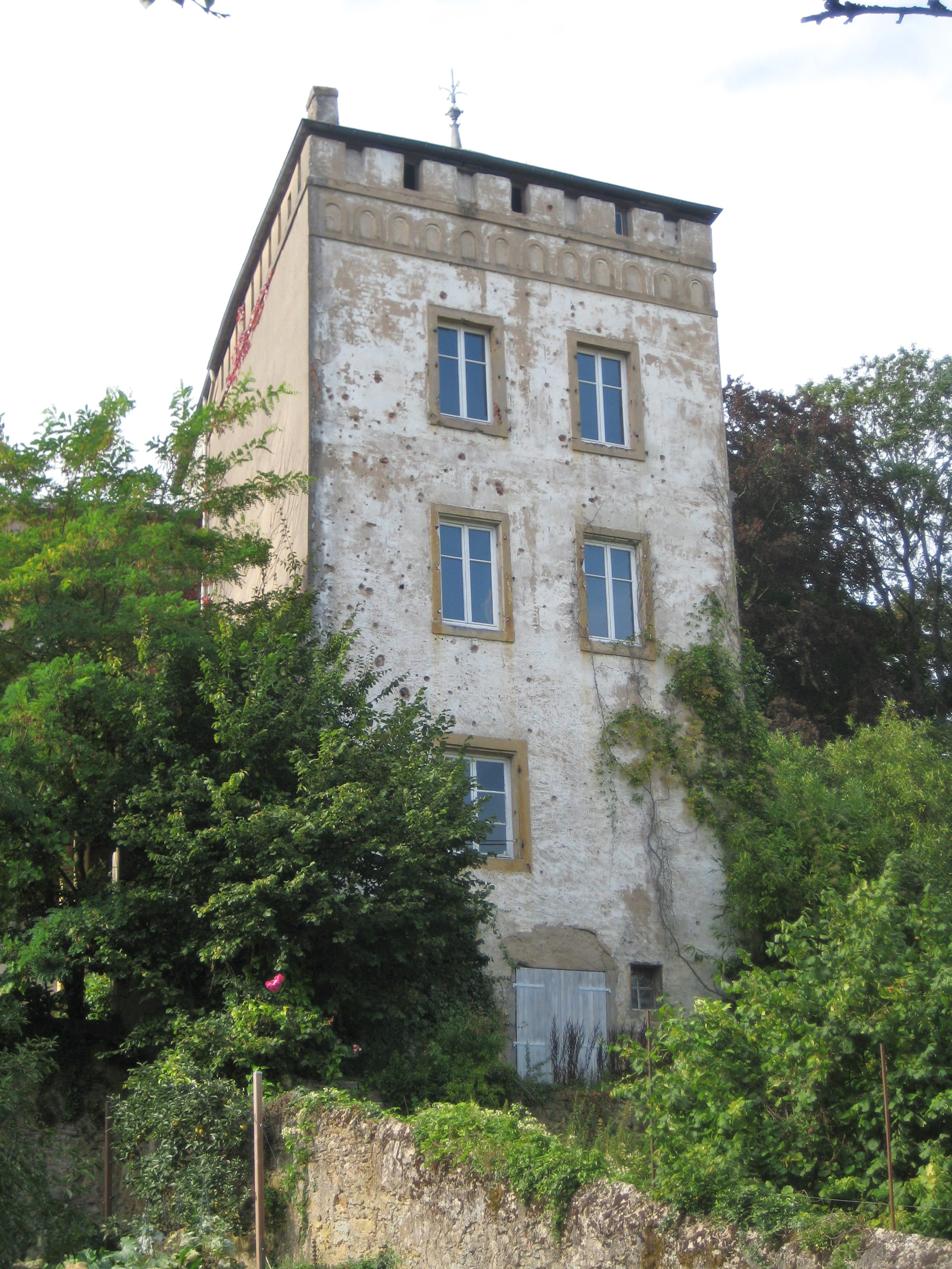 Description chateau Vaux Date26 August 2011Sourcemon appareil photoAuthorAimelaimePermission(Reusing this file) chateau Vaux